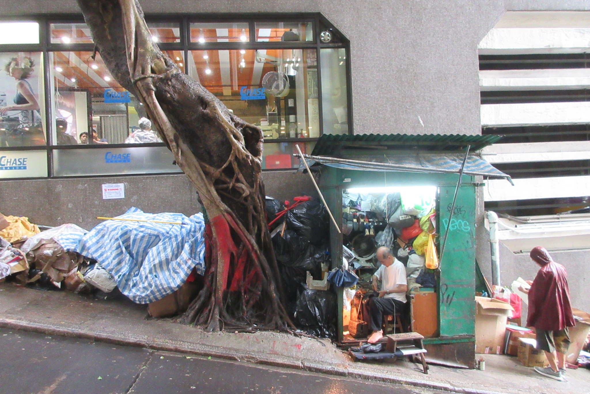 HK 中環 Central 鴨巴甸街 Aberdeen Street in June 2017